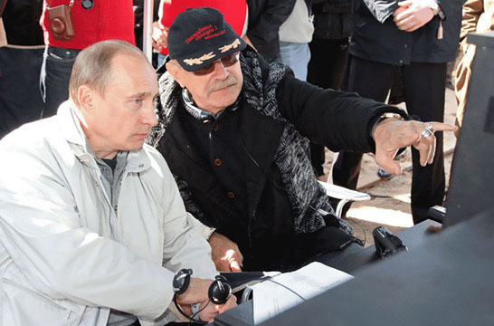 Vladimir Putin visited the survey ground of the Nikita Mikhalkov's film Burnt by the Sun-2 in Shushary village